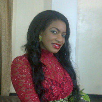 Chika Ike On a Movie Set. Born Chika Ike in Asaba Delta State,April 2012 Nov 8, 1985 (age26) Anambara State, Nigeria Occupation : Actress, Un Peace Ambassador, CEO fancy Nancy Years Active: 2005-present